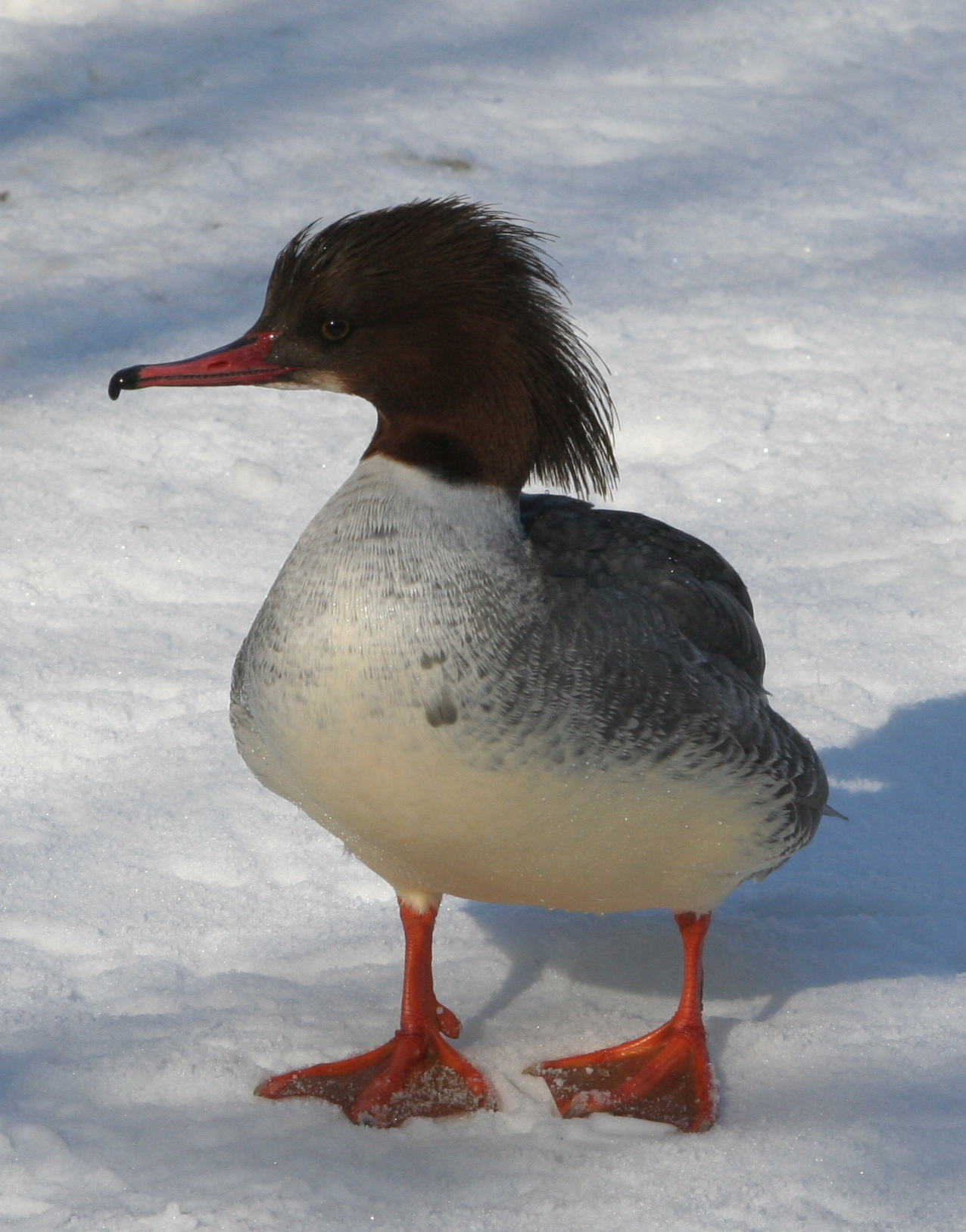 A female goosander in the English Garden, Munich